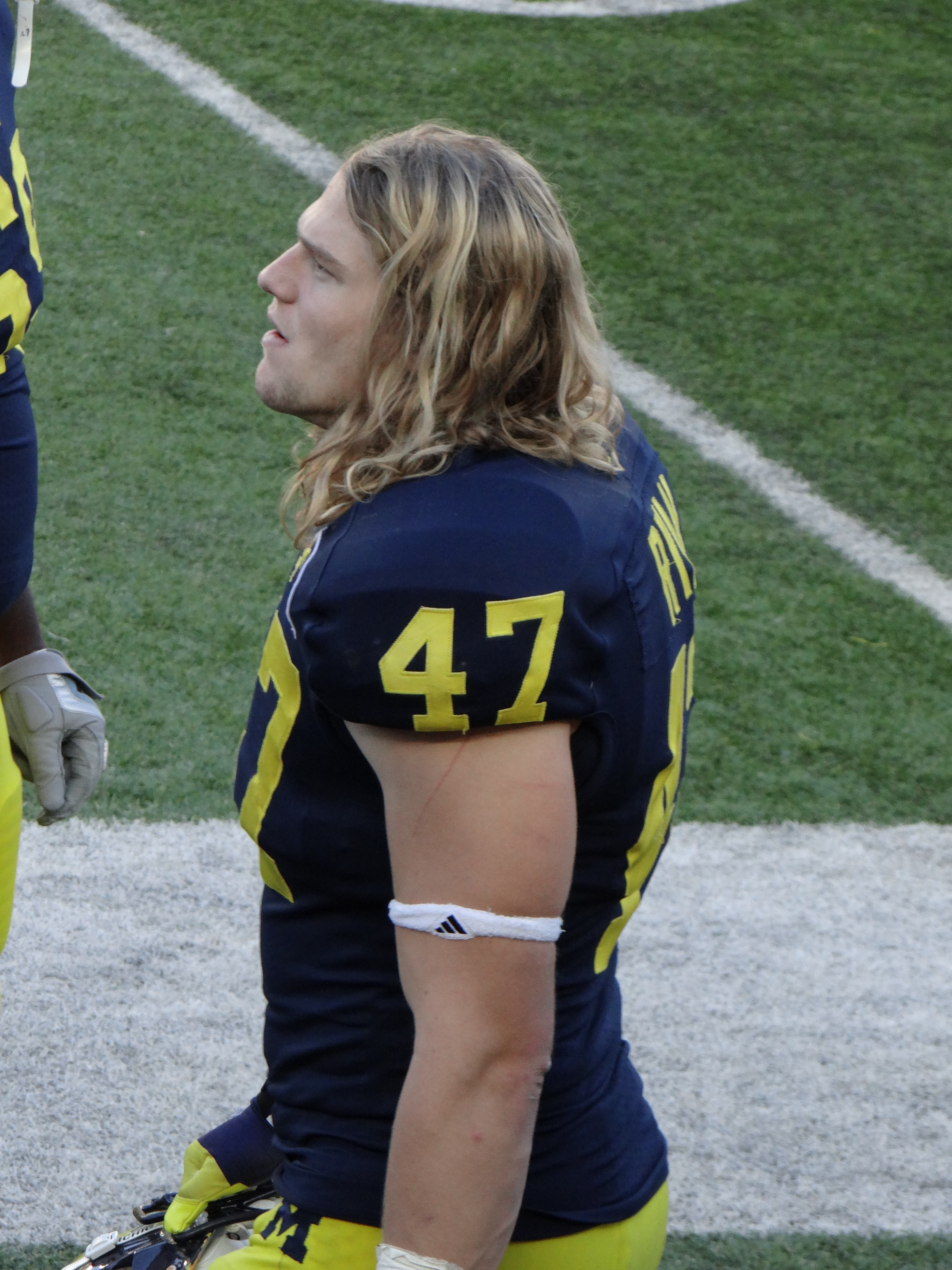 Jake Ryan (American football) on the sidelines against UMass